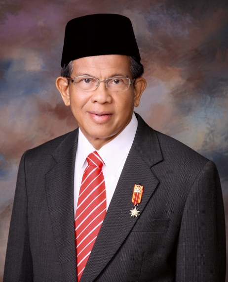 AM Fatwa, former political activist and member of Indonesian Regional Representative Council.